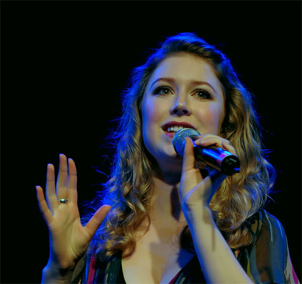 Hayley Westenra during her concert at Hampton Pool, Surrey, 1 Aug 2009